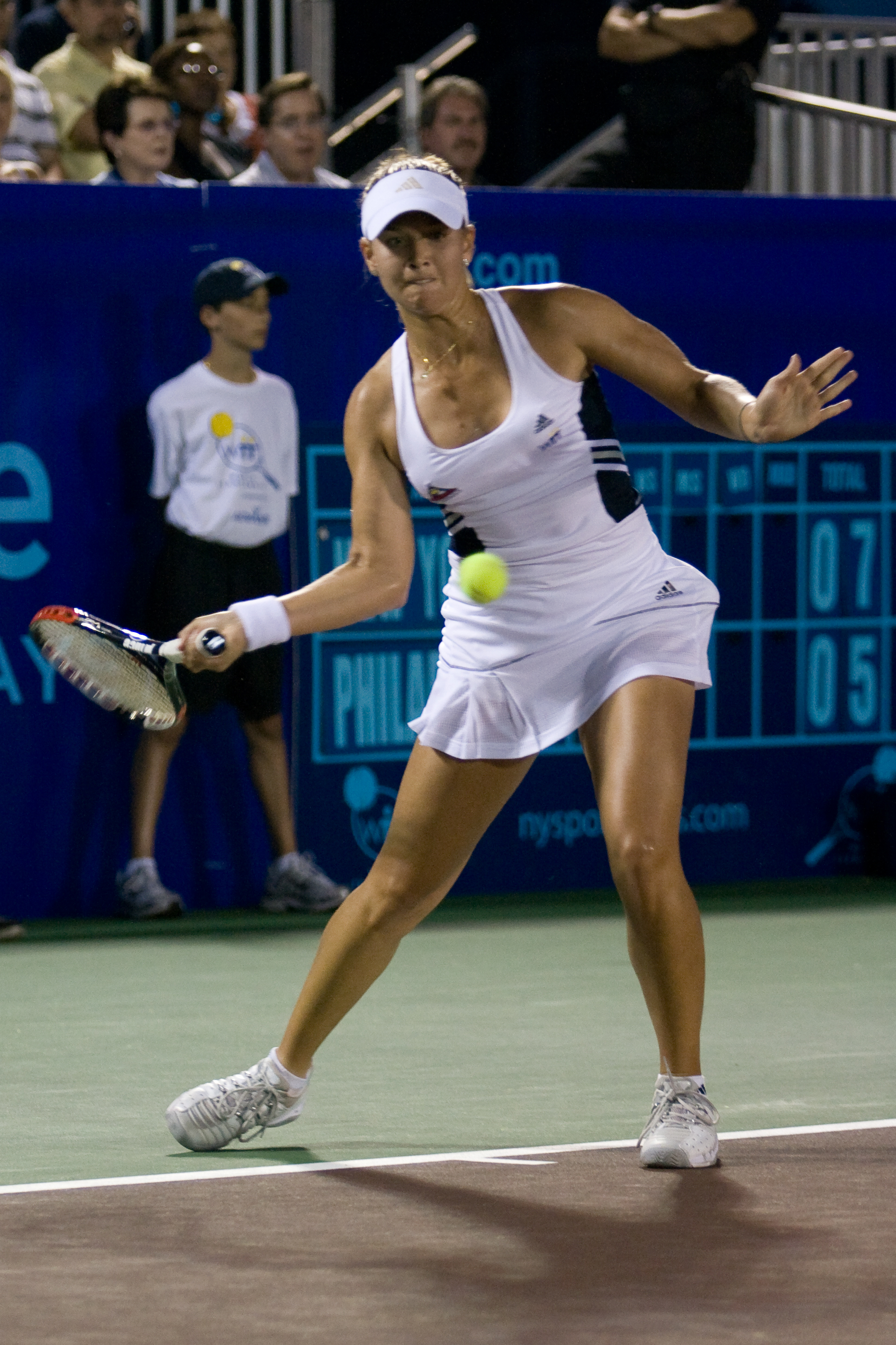 Ashley Harkleroad playing World Team Tennis in Mamaroneck, NY